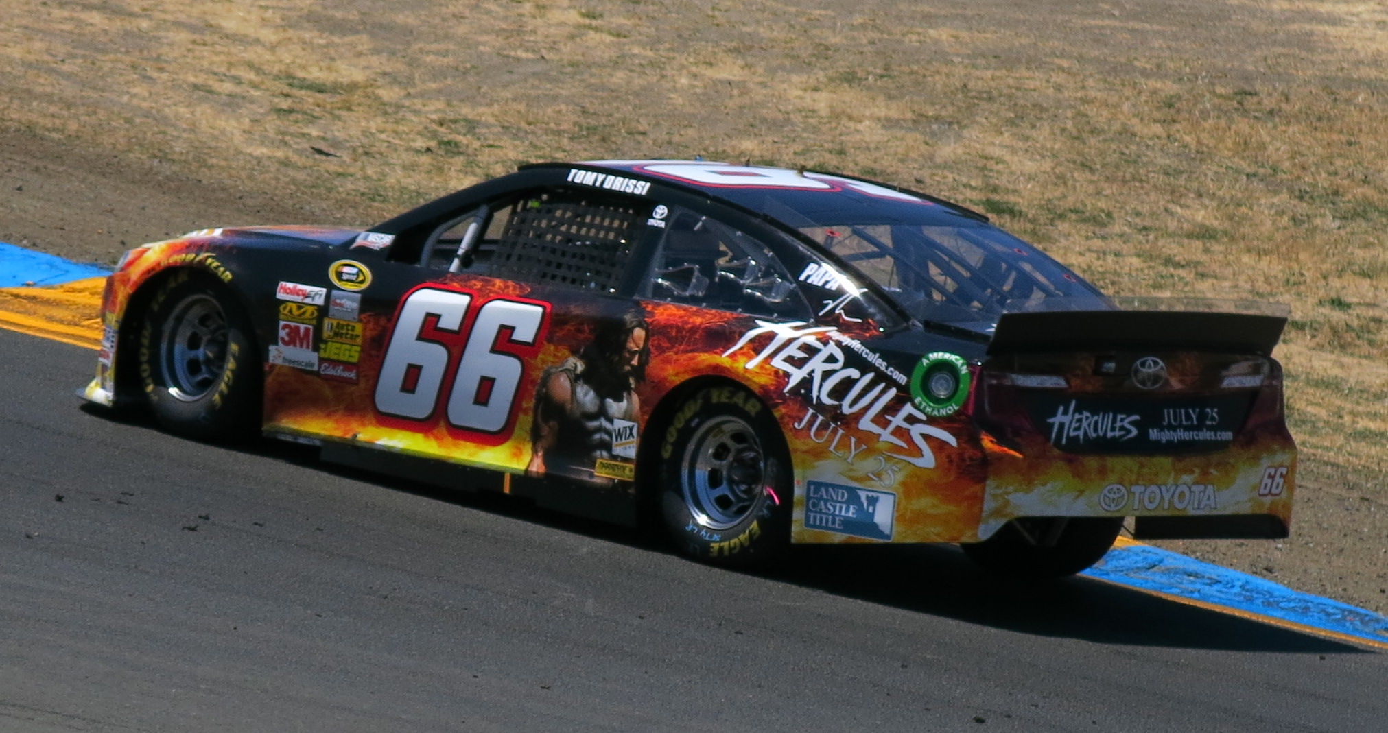 Tomy Drissi's No. 66 Hercules Toyota at Sonoma Raceway in 2014